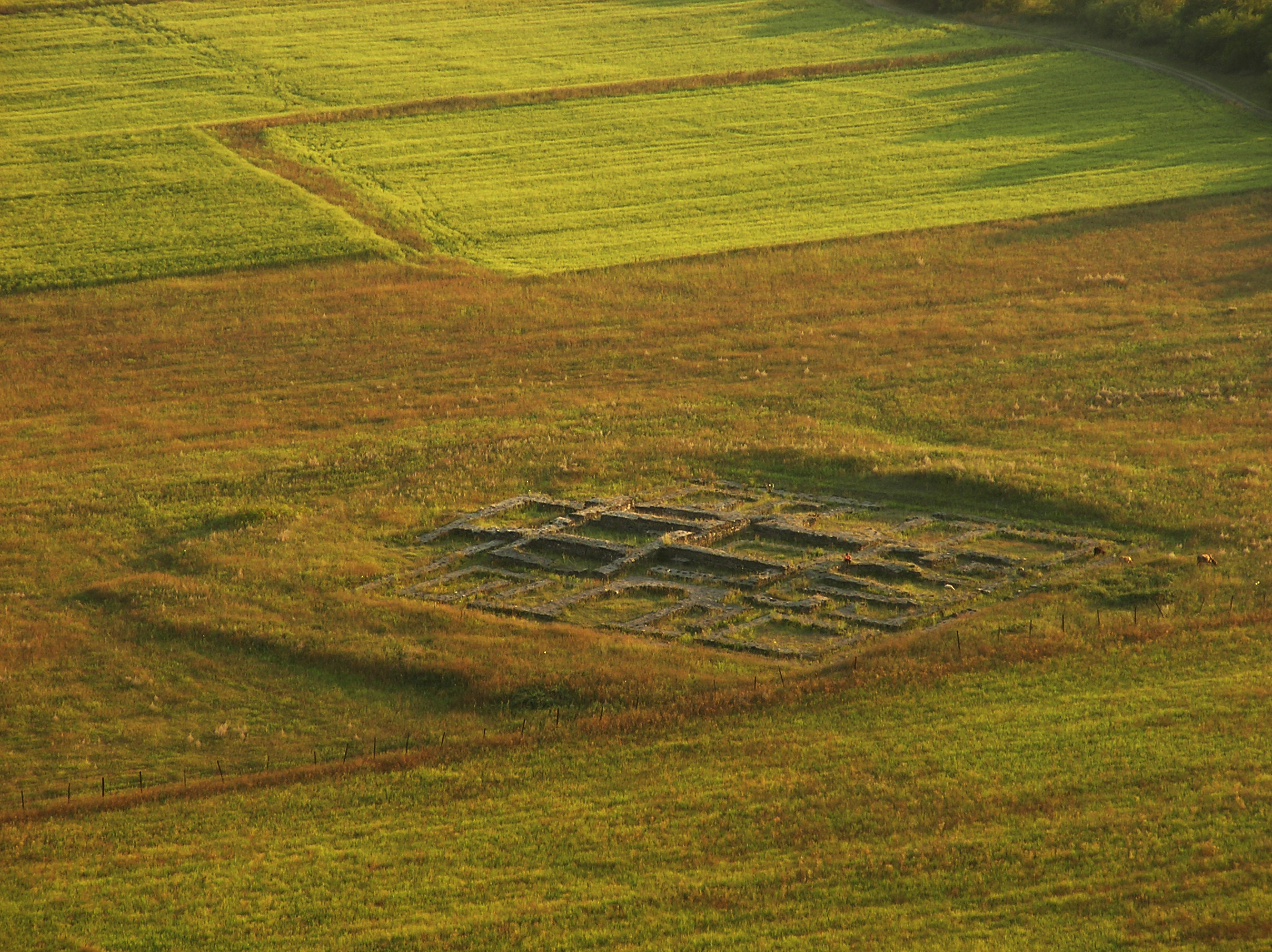 Old hut basement